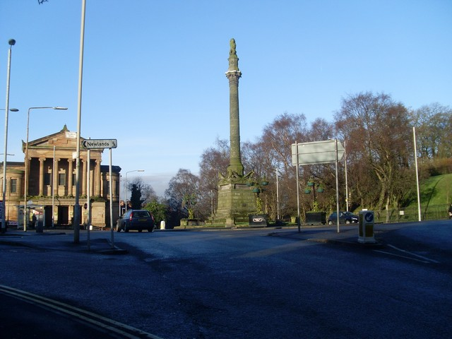 Monument Roundabout, Battlefield Monument to the Battle of Langside, from which the area of Battlefield takes its name.